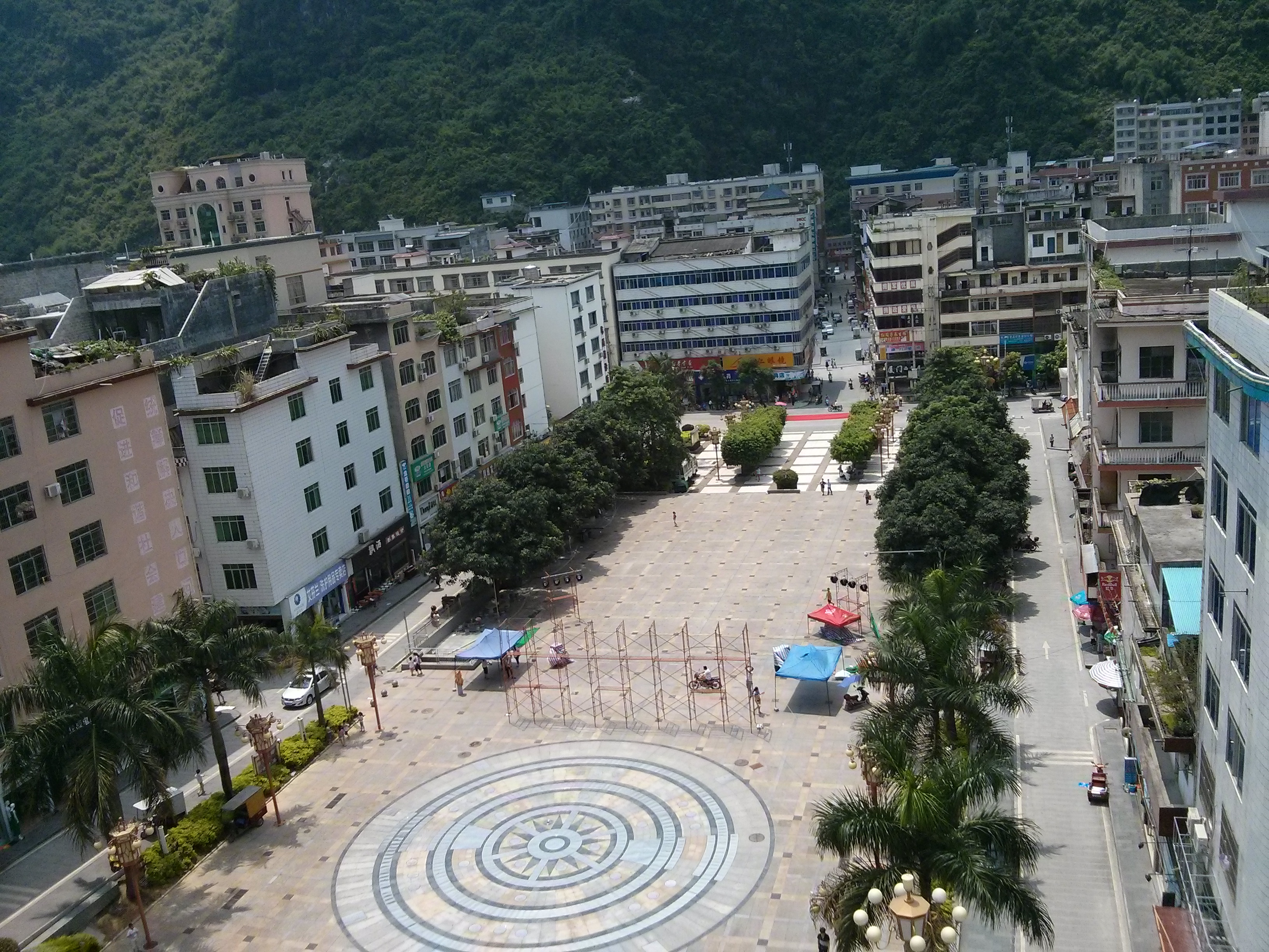 Dong`lan Culture Square,Guangxi